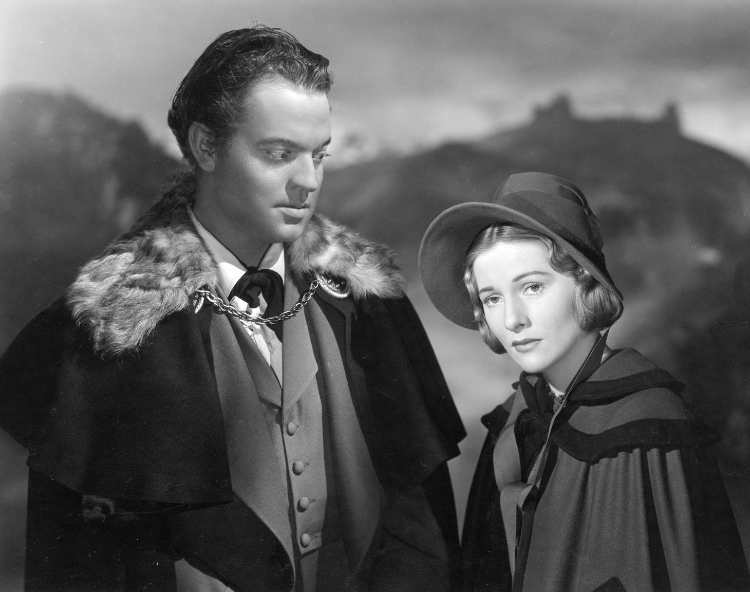 Promotional photograph for the 1943 film Jane Eyre